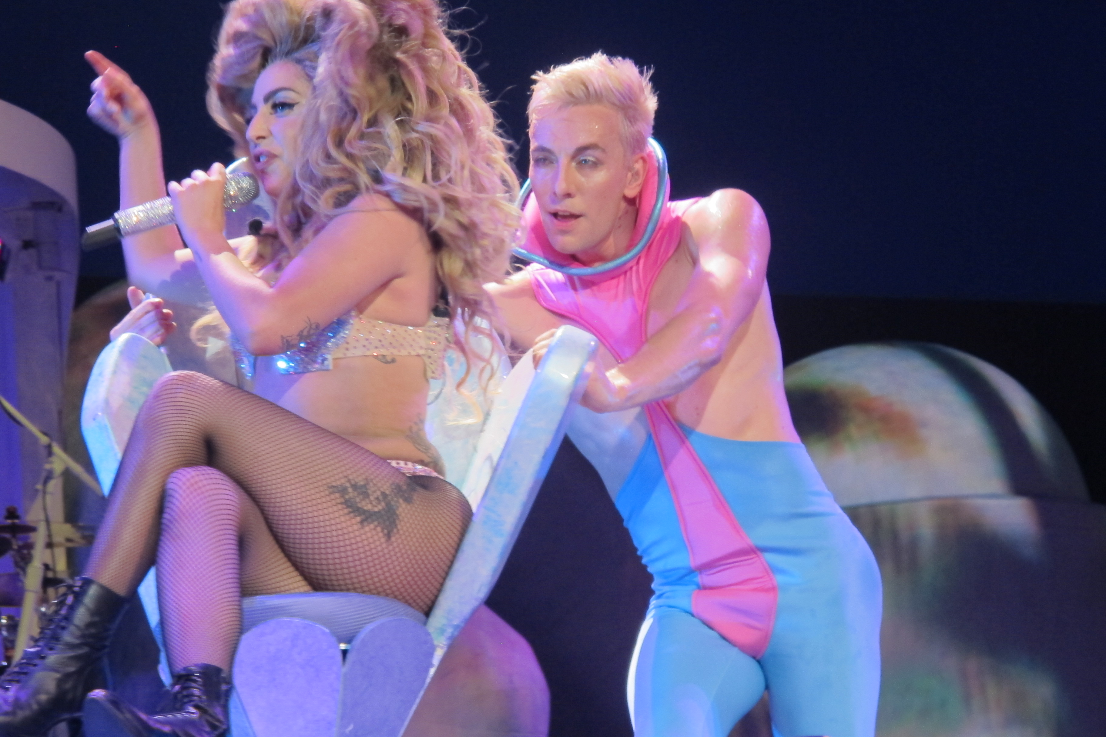 Lady Gaga performing at ArtRave: The Artpop Ball of San Diego